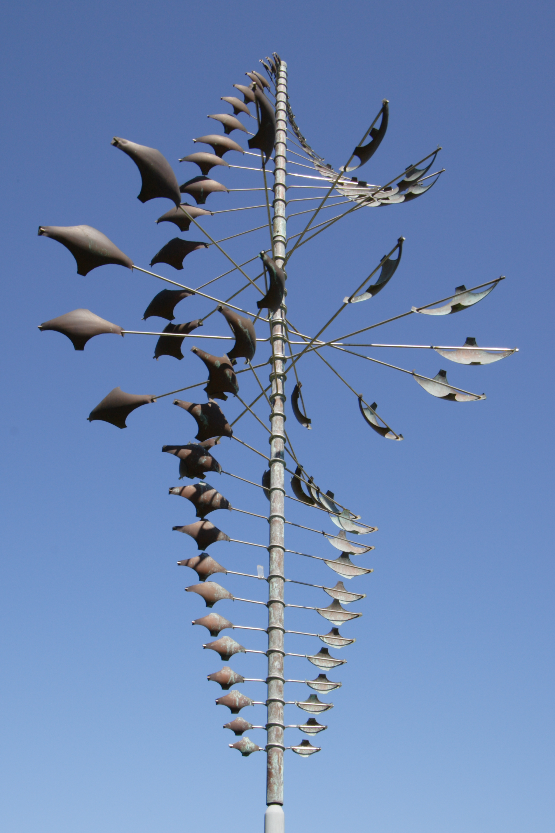 "The Twister Star Huge" by artist Lyman Whitaker, a type of Whirligig, Kinetic art, Public Library, O'Fallon, Illinois